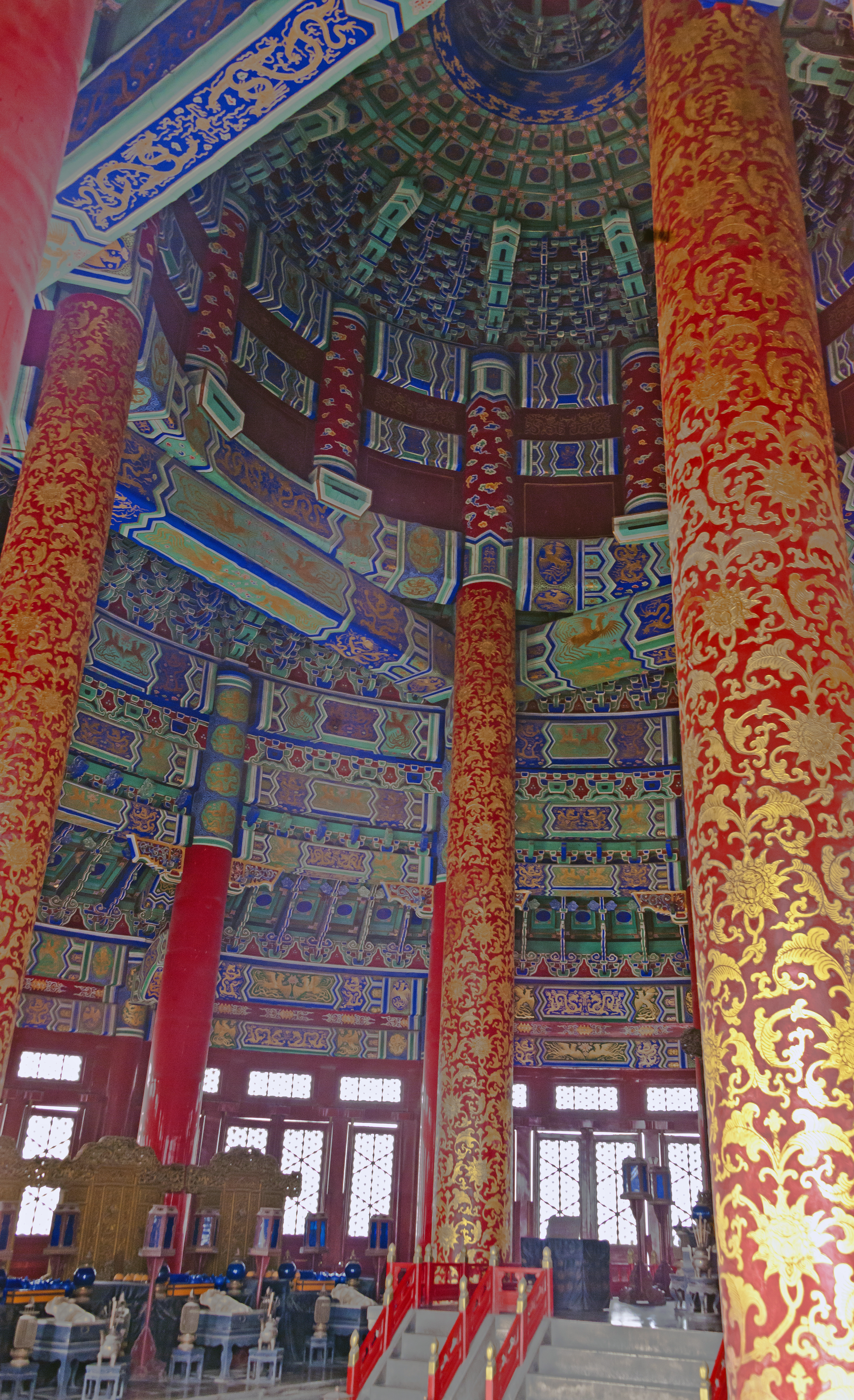 Interior of the Hall of Prayer for Good Harvests, main building of the Temple of Heaven in Beijing